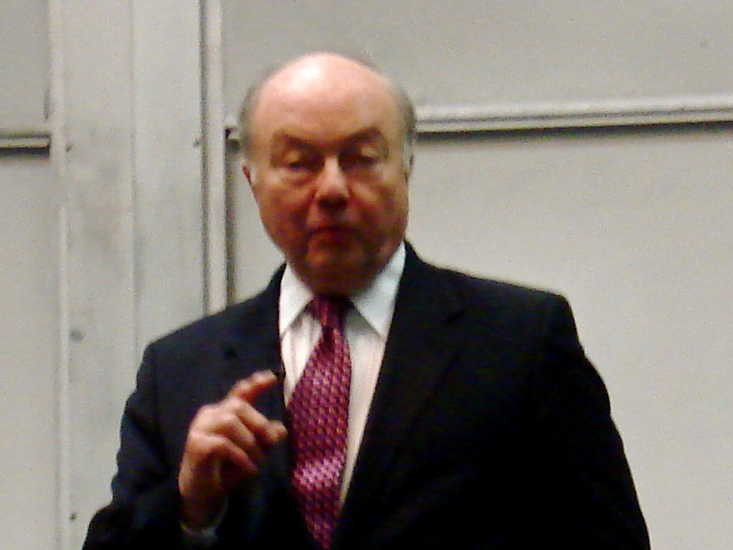 Jack F. Matlock, Jr., former US Ambassador to the Soviet Union